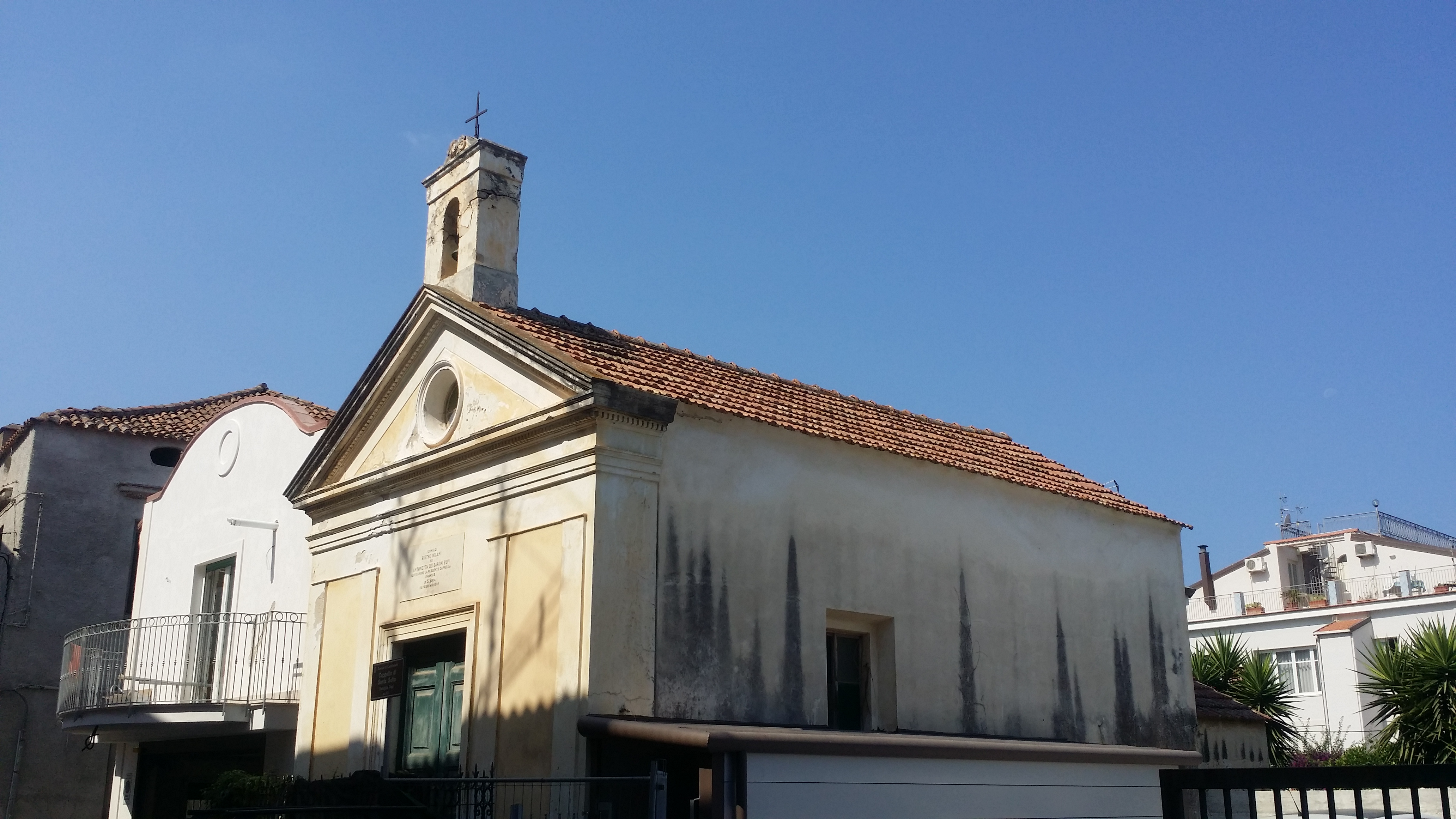 Chapel of Santa Sofia-Santa Maria of Castellabate, Salerno, Italy.